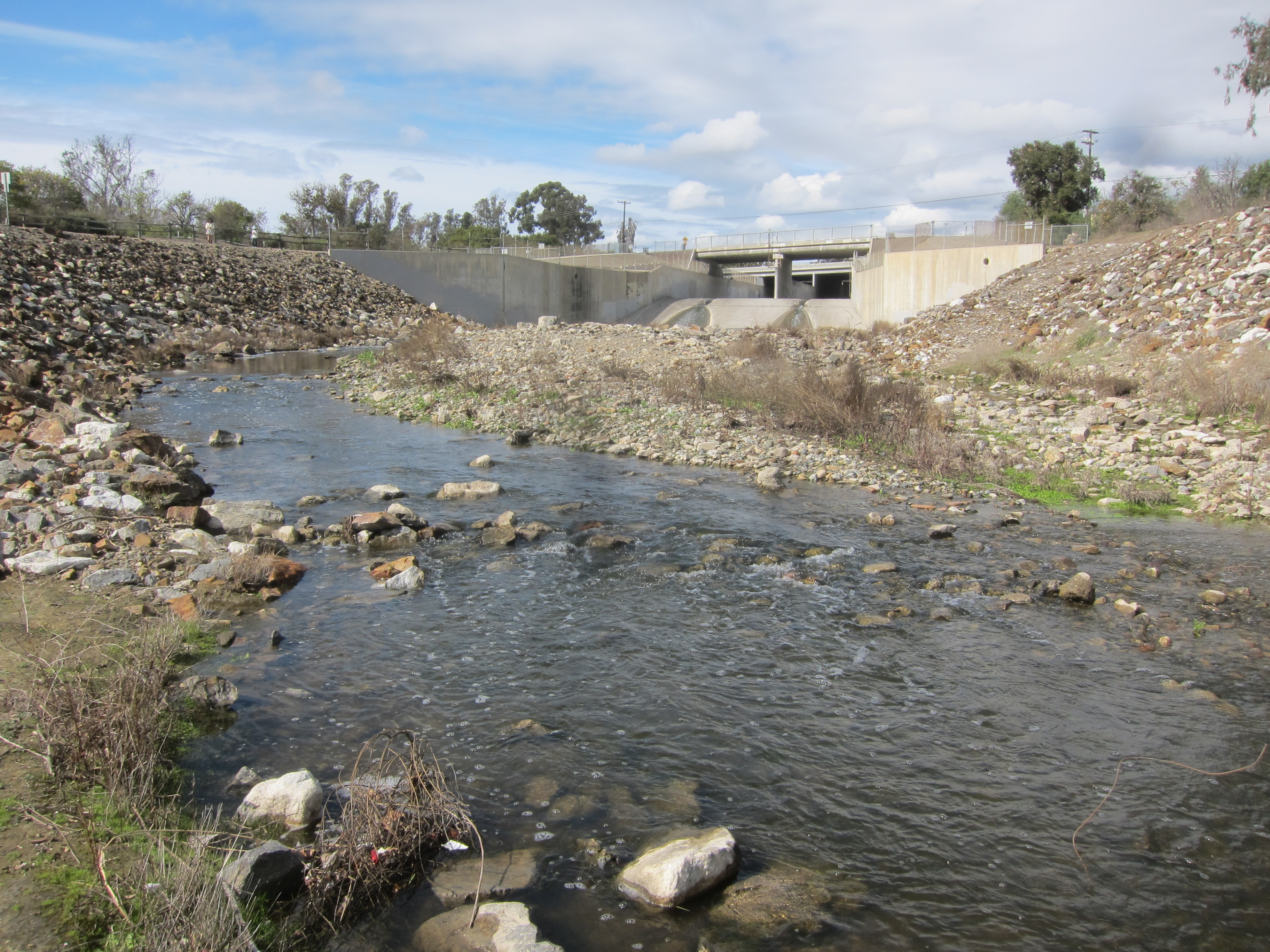 Arroyo Trabuco (Trabuco Creek) below I-5 in Orange County, California